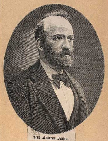 Jens Andreas Jensen (1834-1915), Danish furniture maker and industrialist